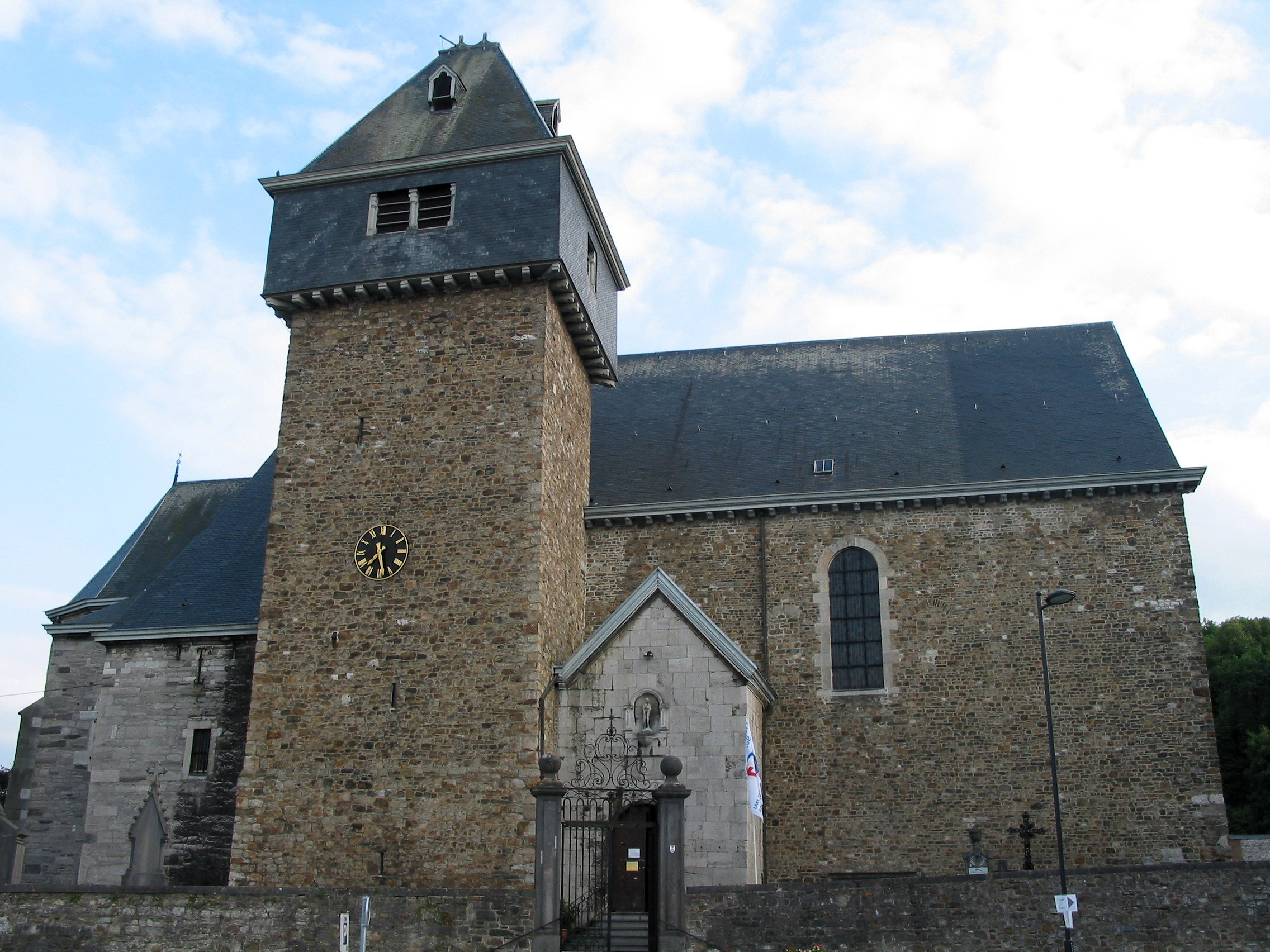 Theux (Belgium), the St. Hermès and Alexandre church (XII - XVIth centuries).